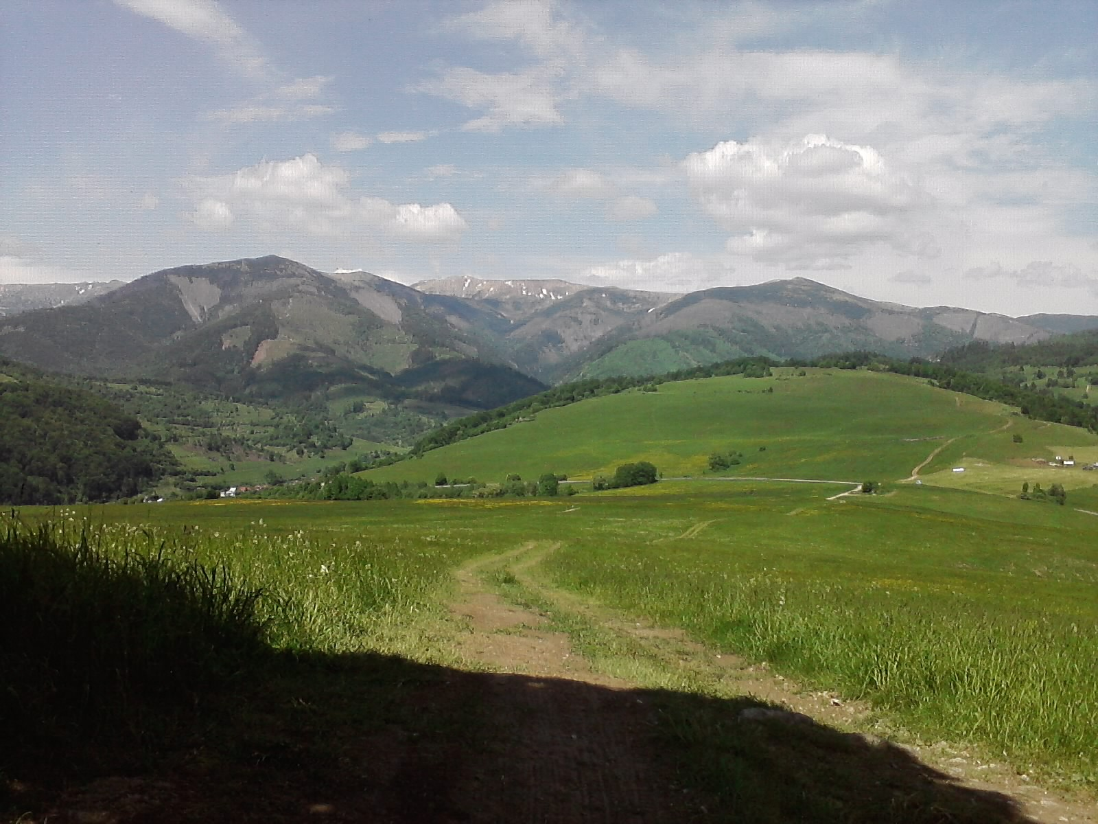 Horehronie